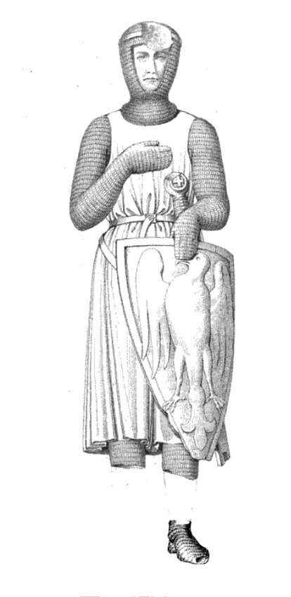 Peter II of Savoy